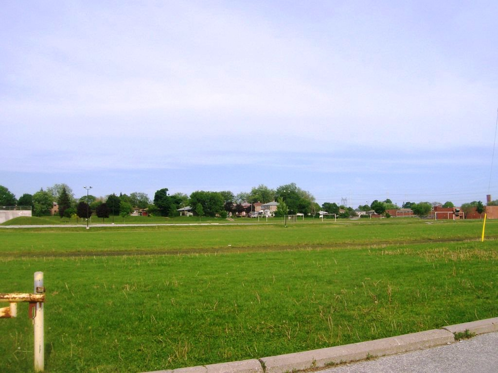 Playing fields of Bendale BTI and David and Mary Thomson CI, May 2013. A new school will be built behind Bendale.